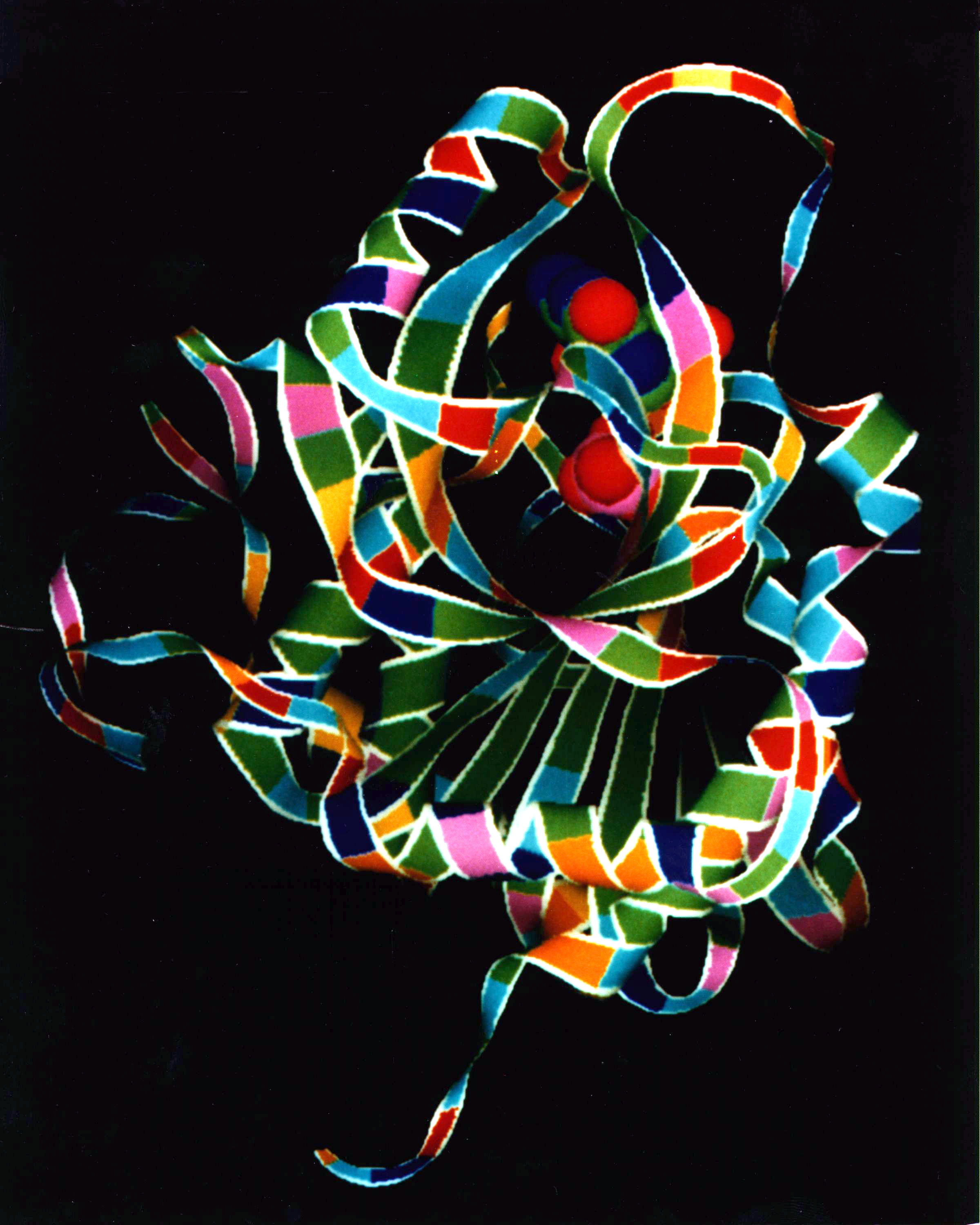 Computer-generated Model of Purine Nucleoside Phosphorylase (PNP) Purine Nucleoside Phosphorylase (PNP) is an important target enzyme for the design of anti-cancer and immunosuppressive drugs. Bacterial PNP, which is slightly different from the human enzyme, is used to synthesize chemotherapeutic agents. Knowledge of the three-dimensional structure of the bacterial PNP molecule is useful in efforts to engineer different types of PNP enzymes, that can be used to produce new chemotherapeutic agents. This picture shows a computer model of bacterial PNP, which looks a lot like a display of colorful ribbons. Principal Investigator was Charles Bugg.